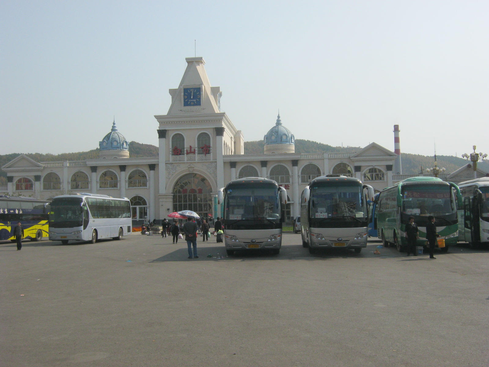 Baishan Railway Station 2013